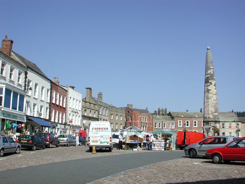 Richmond (North Yorkshire), Market Square